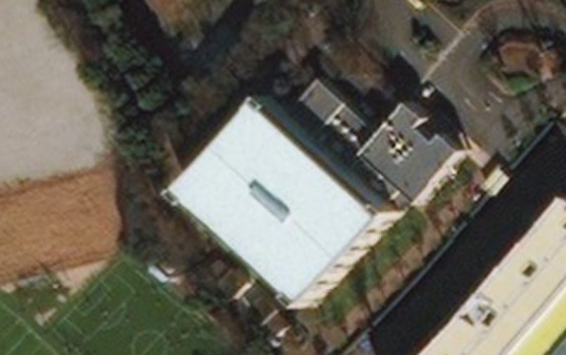 Satellite view